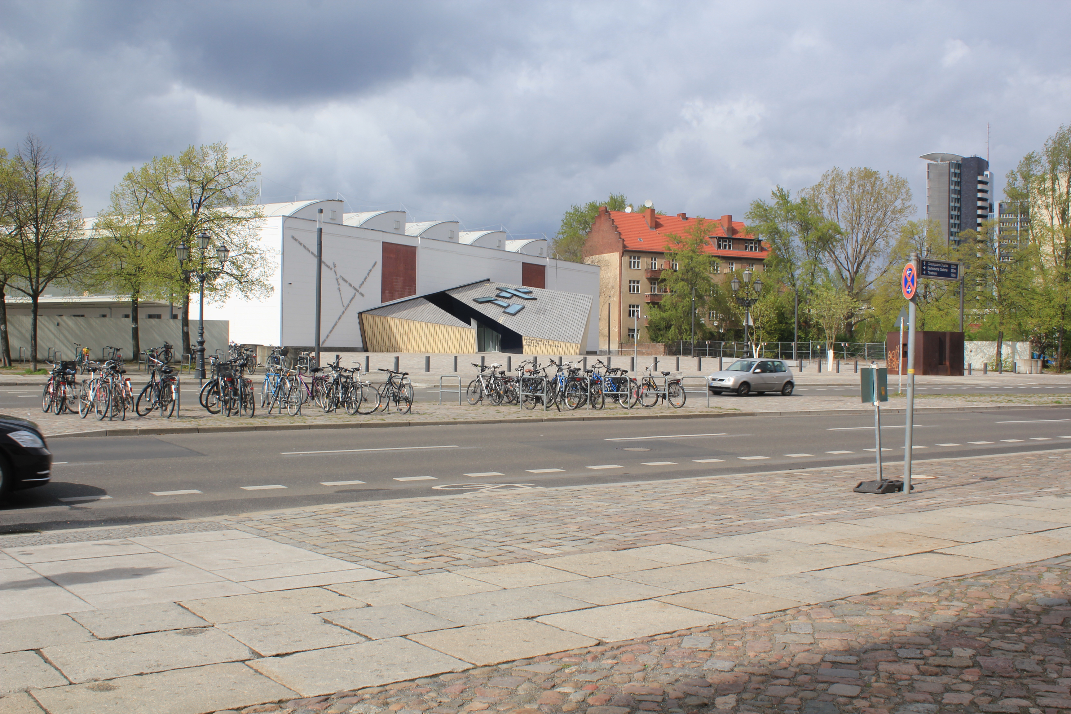 Academy of The Jewish Museum, Berlin. Designed by architect Daniel Libskind.